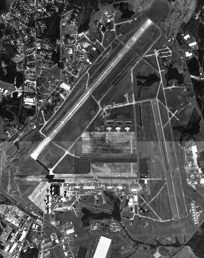 USGS orthophoto of Donaldson Air Force Base, South Carolina